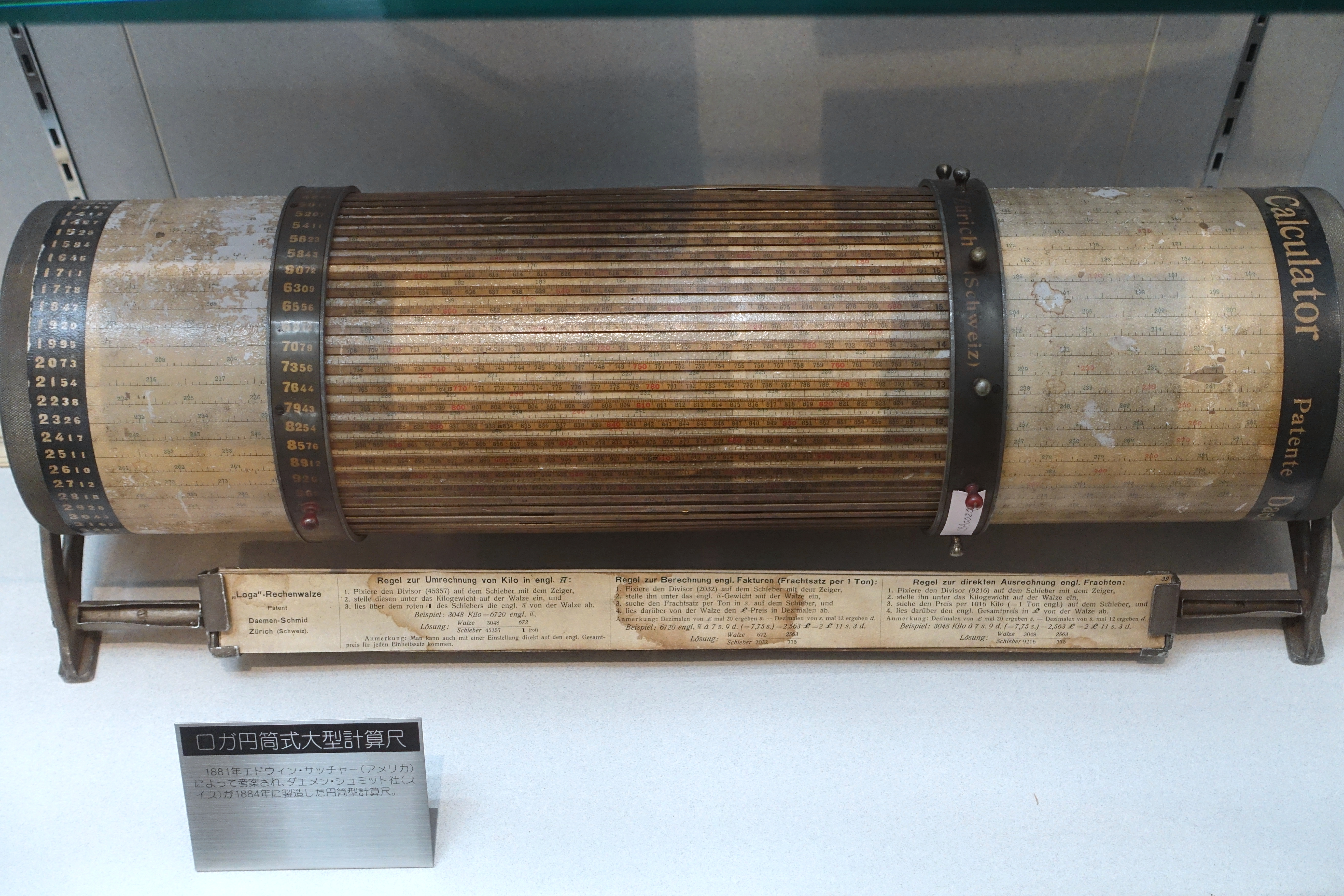 Exhibit in the Ridai Museum of Modern Science, Tokyo University of Science, Kagurazaka campus - 1-3 Kagurazaka, Shinjuku-ku, Tokyo.